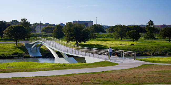 Phyllis J. Tilley Memorial Bridge, Fort Worth, Texas Photographer: Alan Karchmer Architect: Rosales + Partners Engineer: Freese and Nichols